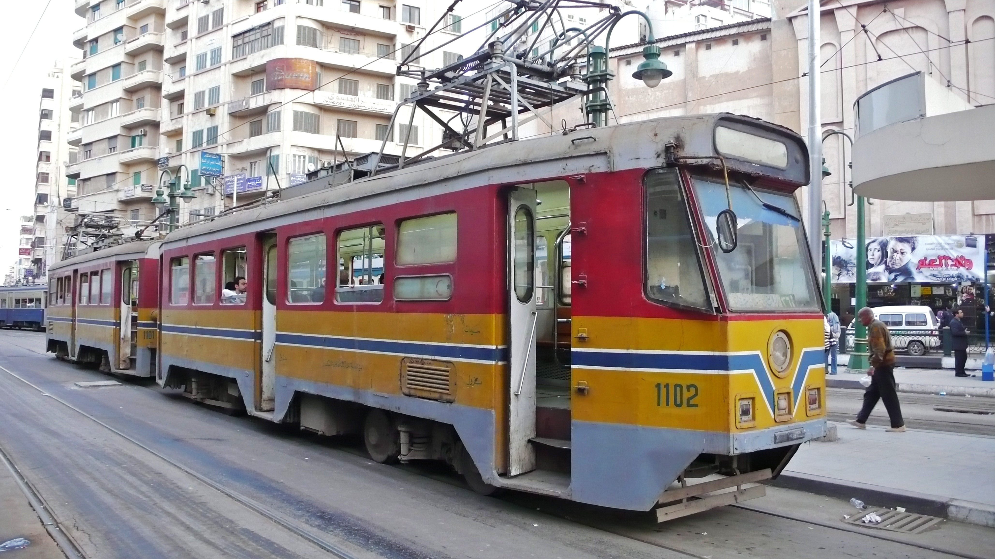 Tram in Alexandria, consisting of cars 1102 and 1101.